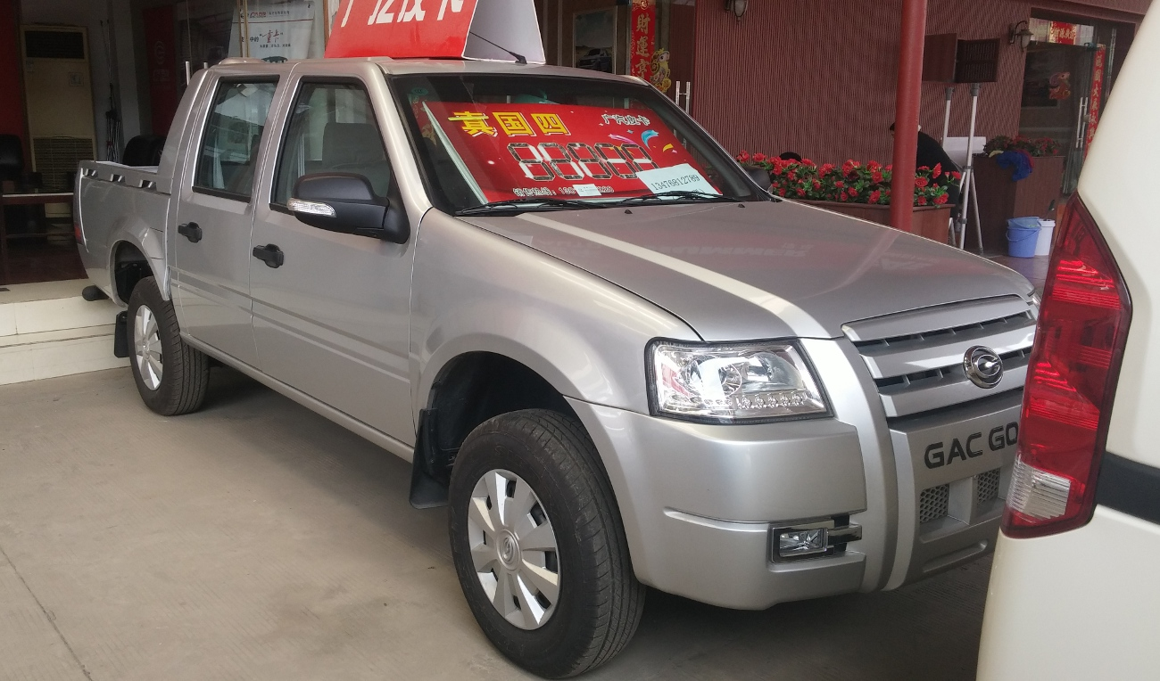 Gonow Troy 300 photographed in Wuhan, Hubei province, China.